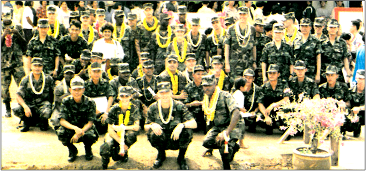 555 EN BDE participate in Operation Gold in Thailand in 1995.